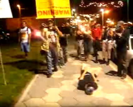 Jeremy Gloff, dancing in the middle of an anti-homosexuality rally in Tampa, FL